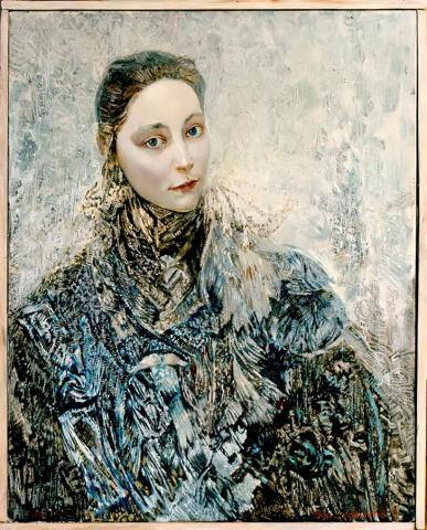 Arlekin